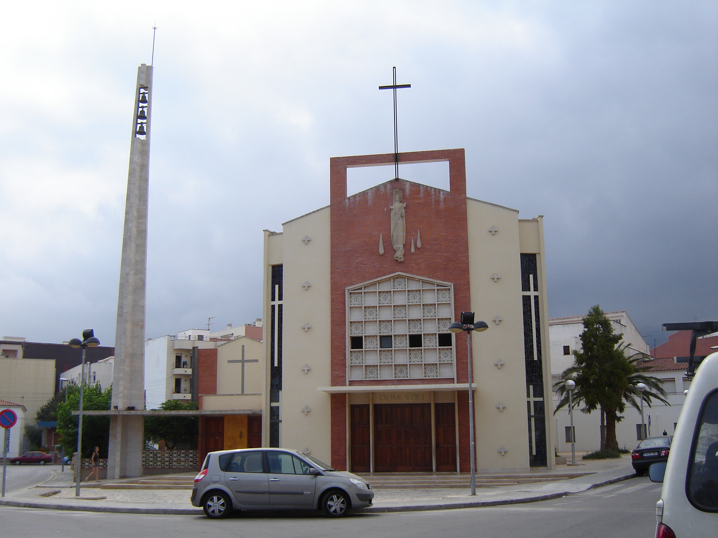 Church of Hospitalet de l'Infant. Hospitalet de l'Infant, municipality of Vandellòs i l'Hospitalet de l'Infant, comarca Baix Camp, province of Tarragona, Spain.